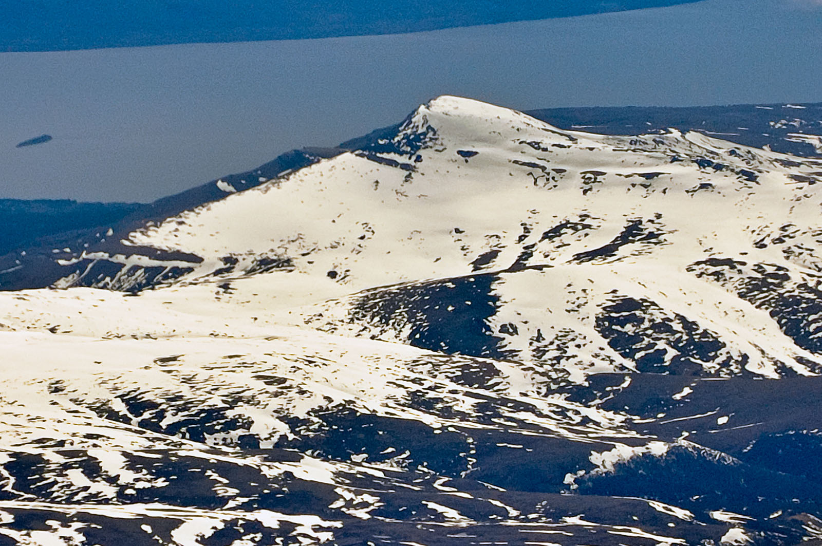 Aerial photograph of the Mentolat stratovolcano. Aysén region, Chile. Elevation: 1.660 m